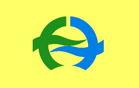 Flag of Hirono Iwate